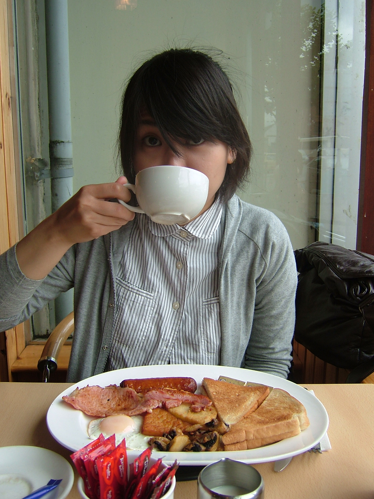 Young girl having an Ulster fry, in Belfast.